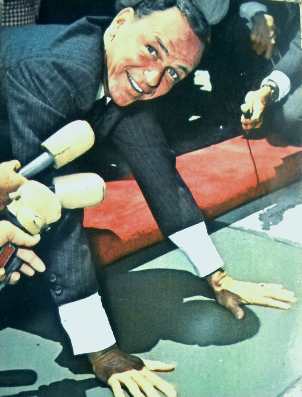 Postcard photo of the handprint ceremony at Grauman's Chinese Theatre for Frank Sinatra.